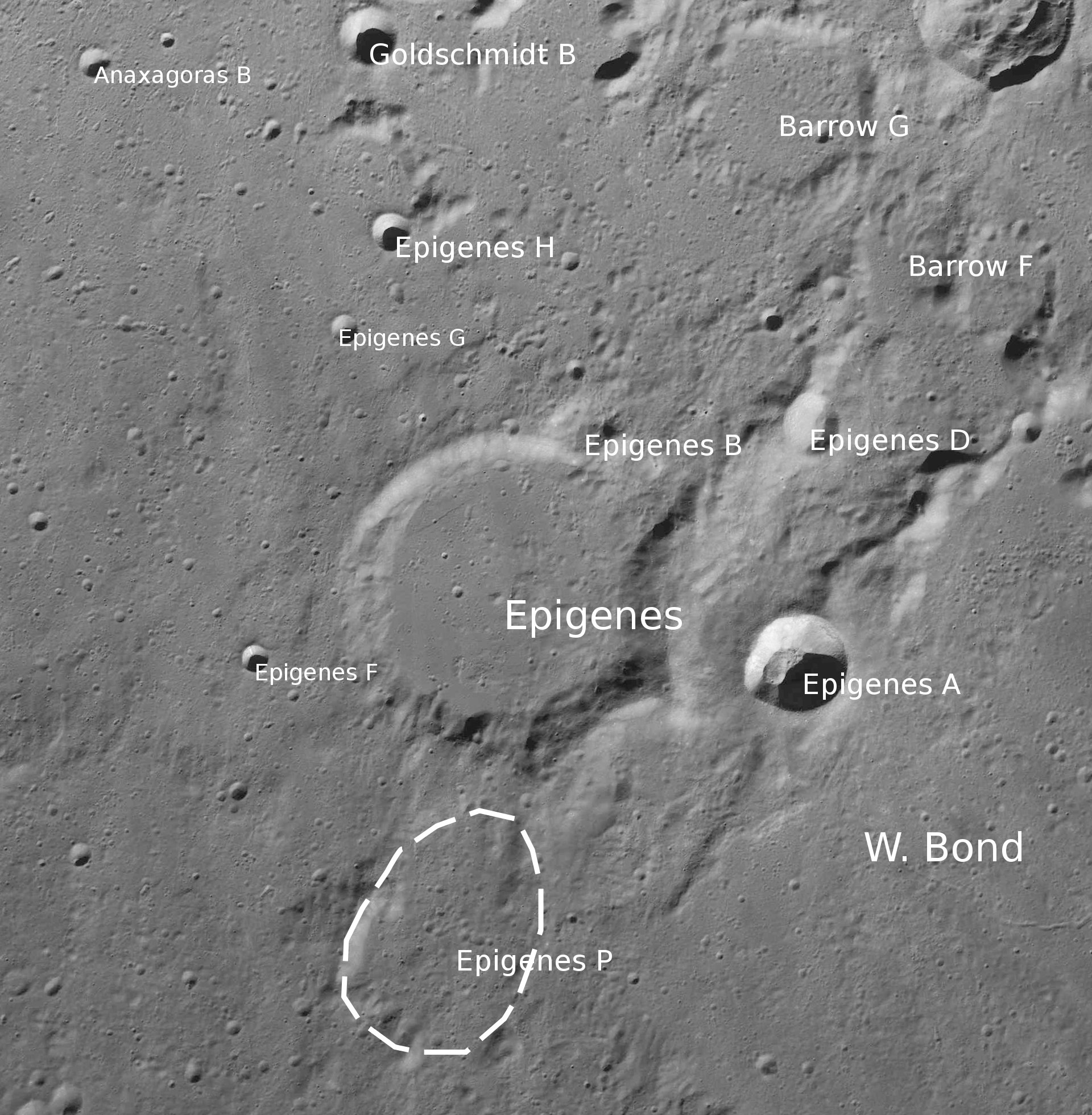 Moon crater Epigenes with satellite features (north at top; detail of LRO - WAC north pole mosaic)